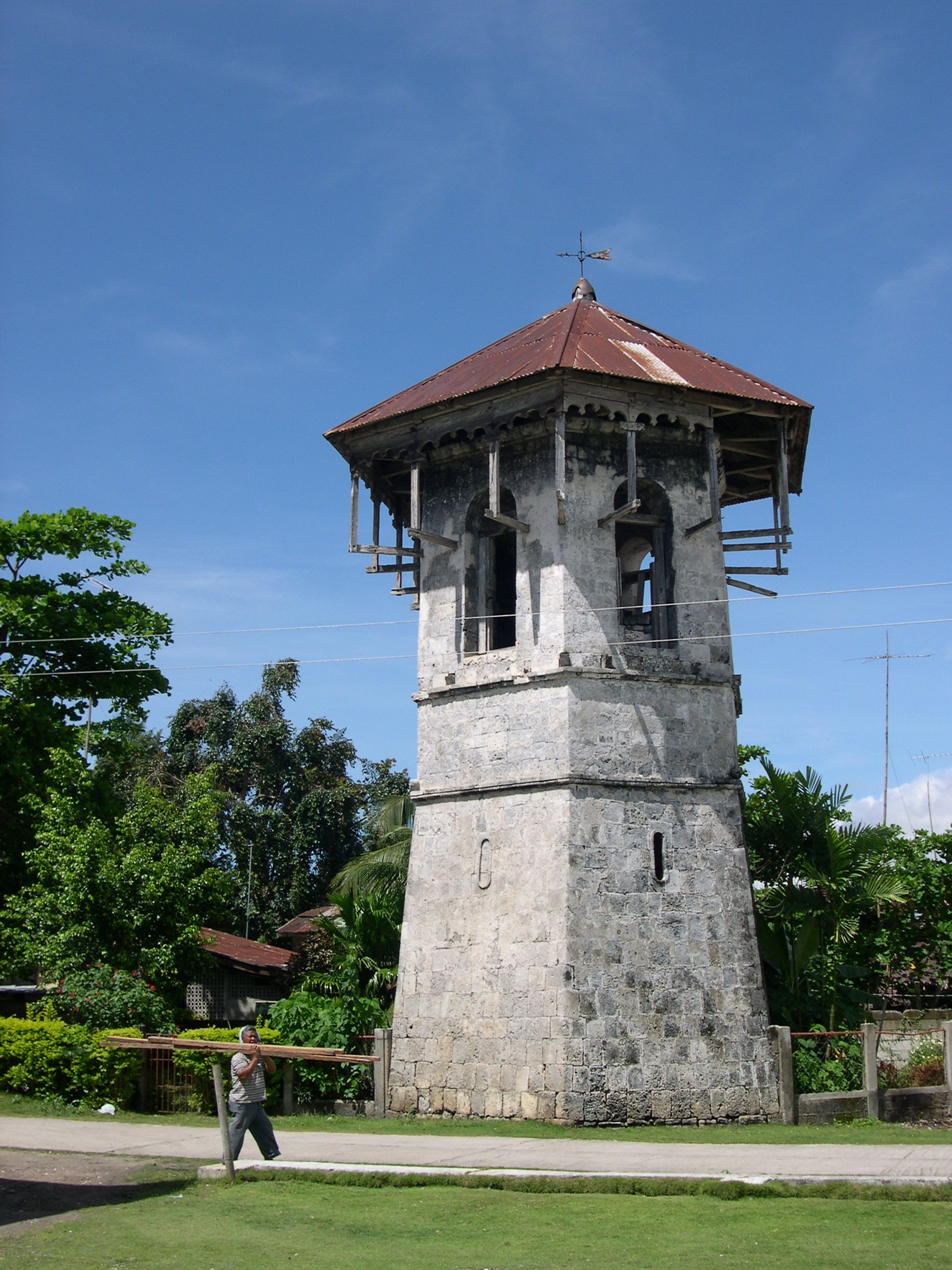 The watchtower in Dauis, Panglao on the island of Bohol, Philippines